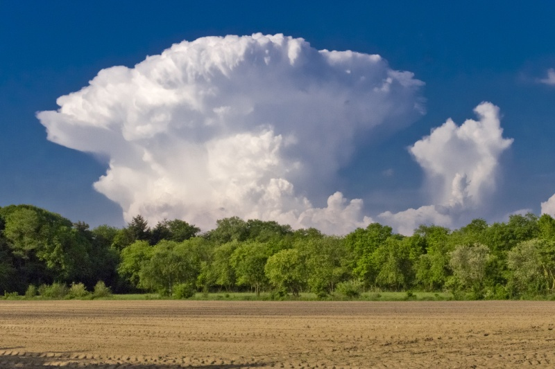 Cumulonimbus over the Netherlands. Photo taken at (52.217323, 6.822871) on 2012-05-20 18:45 CET, looking north.